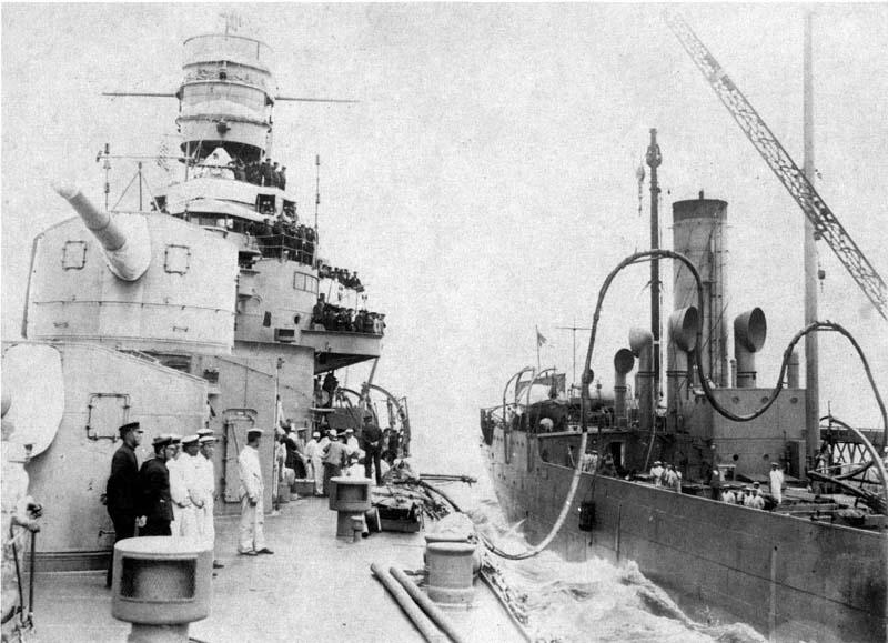 The Imperial Japanese Navy's heavy cruiser Furutaka is refueling from the tanker Tsurumi